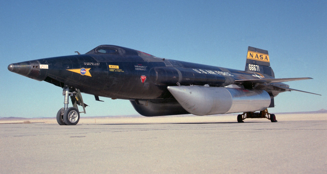 The second North American X-15 rocket plane (serial 56-6671) transformed to X-15A-2 standard with its two external fuel tanks